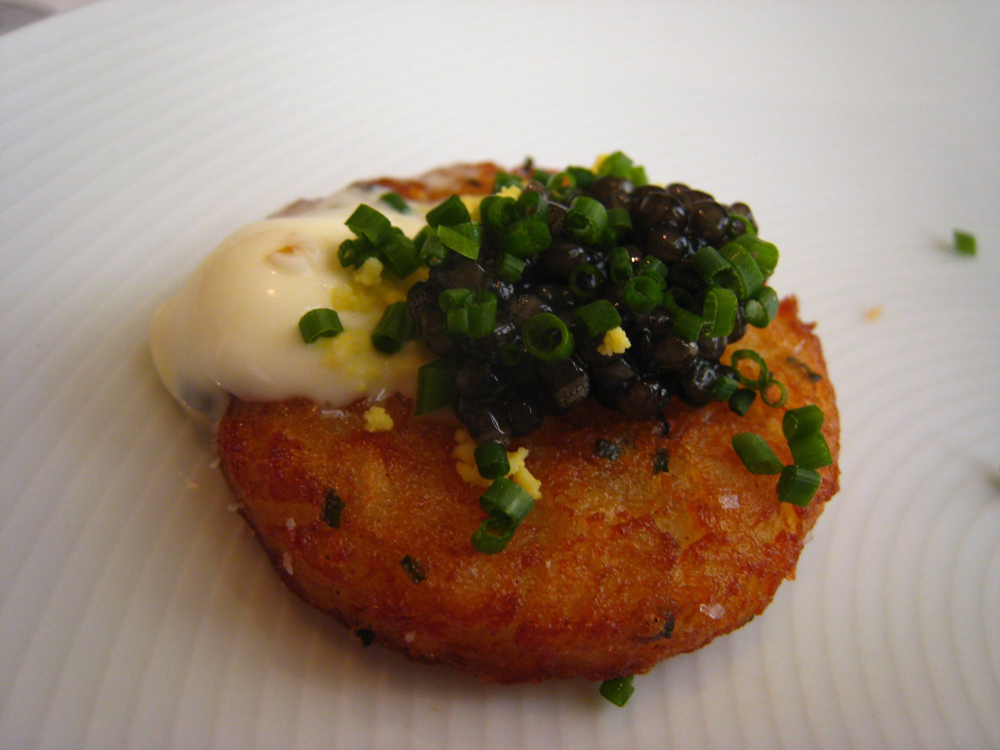 Caviar (Black River Ossetra from Uruguay) on potato cake with crème fraîche and chive.